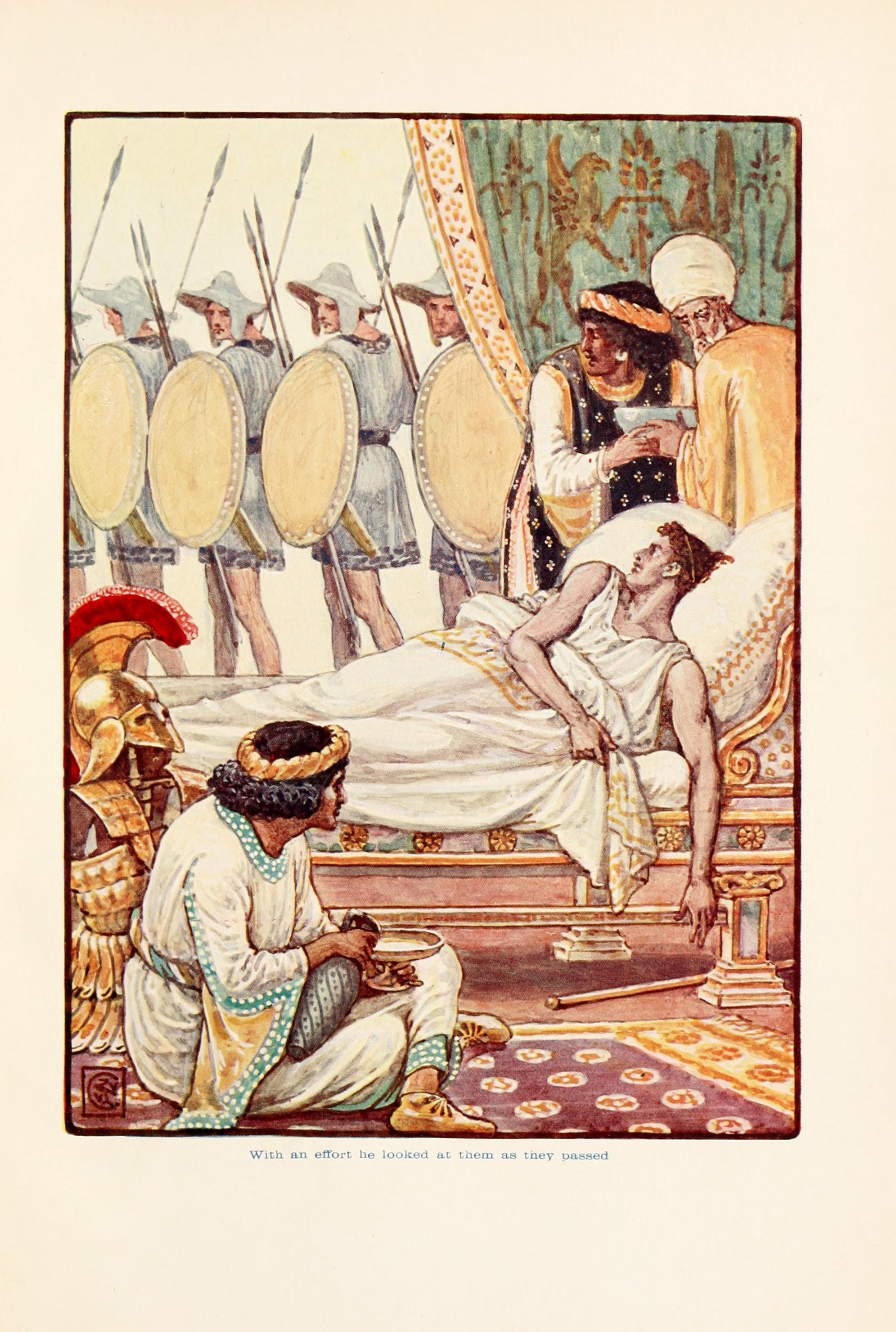 These stories from the history of ancient Greece begin with myths and legends of gods and heroes and end with the conquests of Alexander the Great. The book is accessible and well organized, but it is considerably more detailed than some other introductory texts. It covers Greek history from the age of Mythology to the rise of Alexander, but because of its length we do not recommend it for 5th grade or younger. It is an excellent reference, thoroughly engaging, and a good candidate for a somewhat older student's first foray into Greek history.